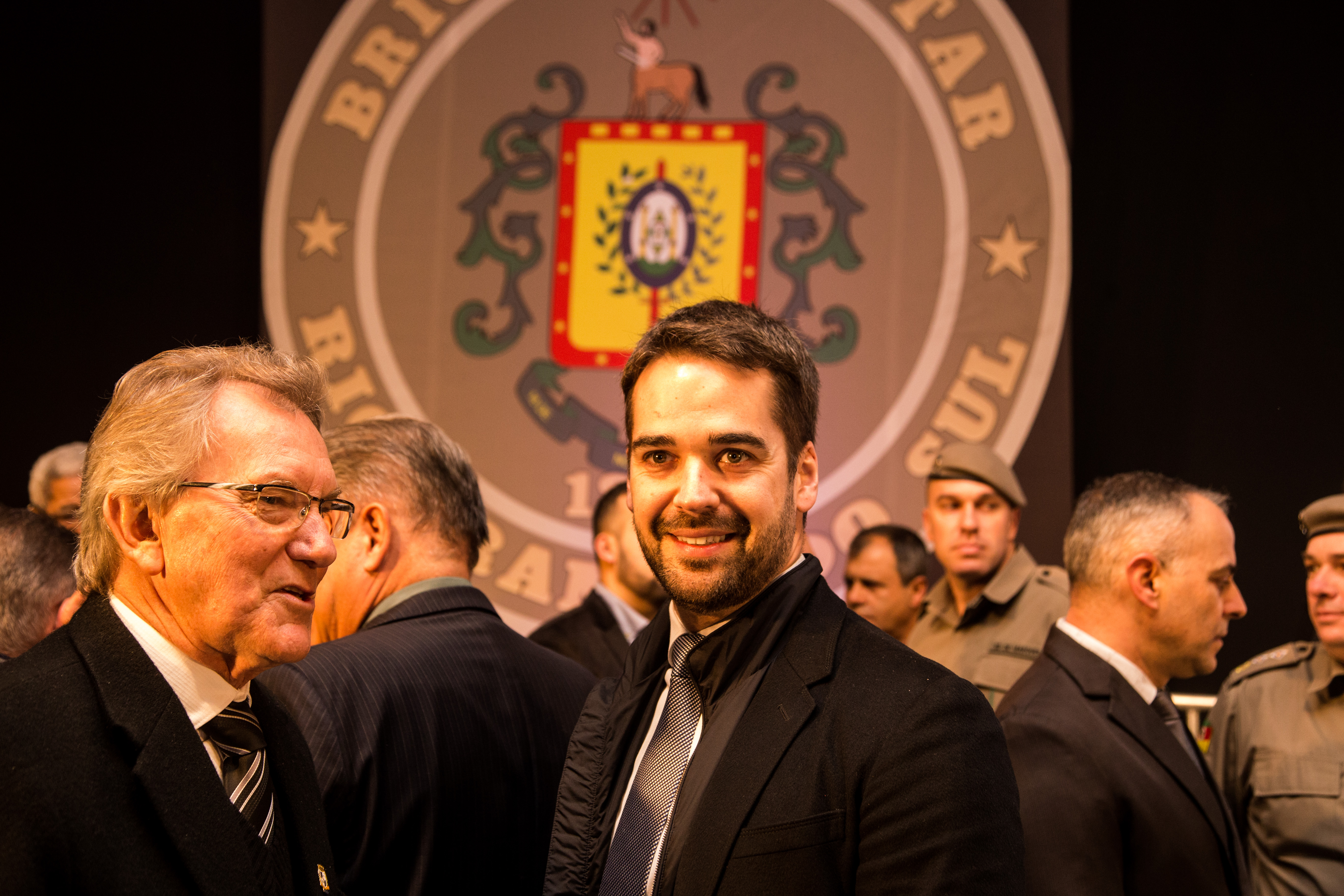 O governador Eduardo Leite durante formatura de brigadianos em agosto de 2019.